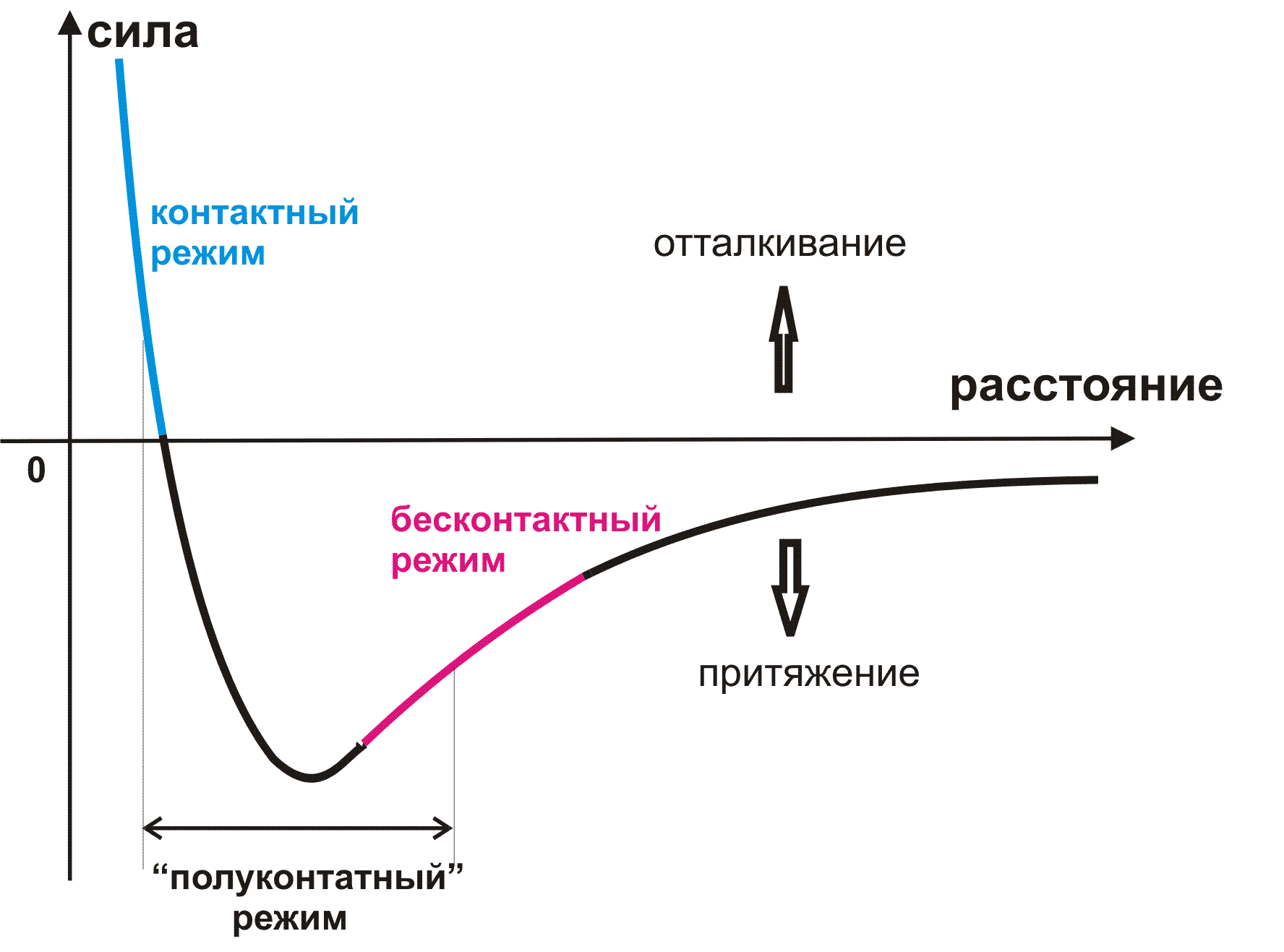 The force-distance curve (Wan-der-Vaals) with captions, illustrating afm (atomic force microscope) operating modes